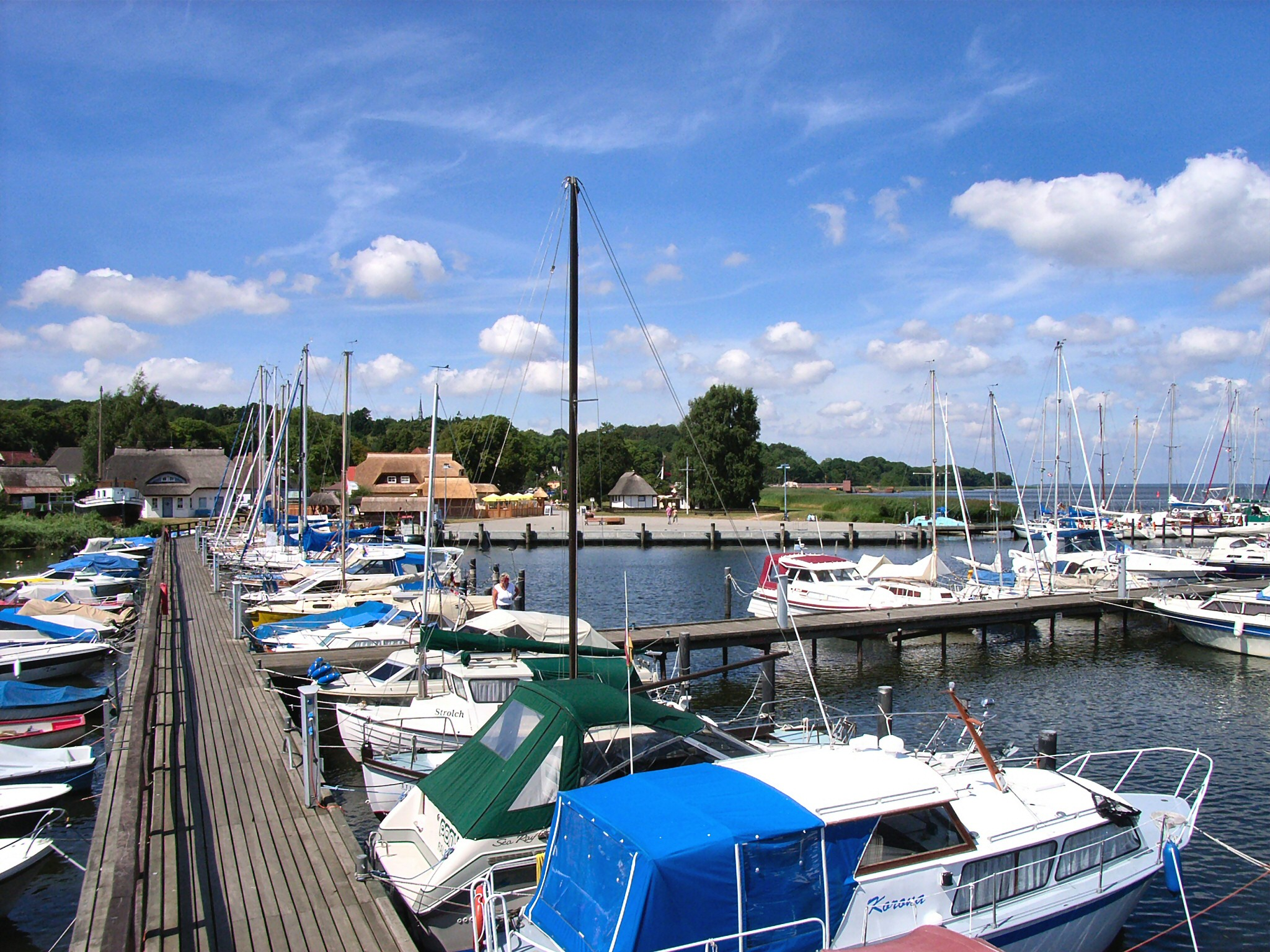 Marina of Ralswiek on the island of Rügen